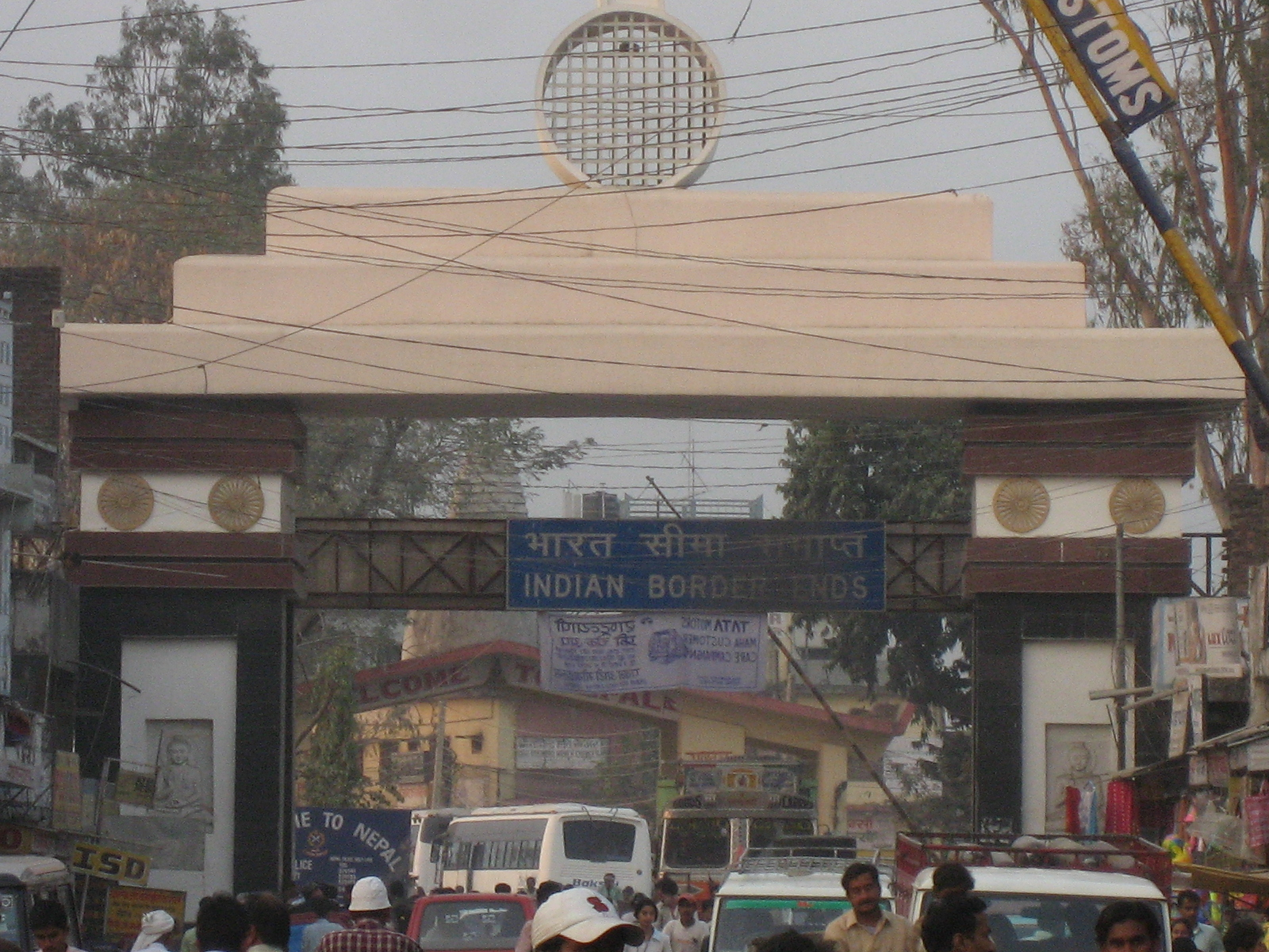 India - Nepal border near Siddharthanagar/Lumbini